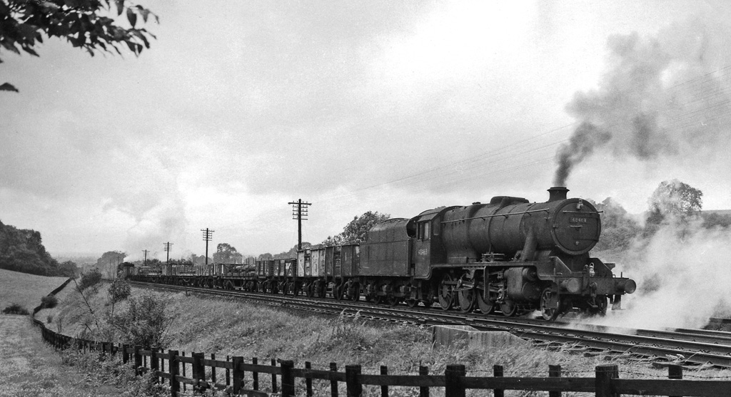 Freight train ascending the Lickey Bank. View SW, towards Bromsgrove, Worcester, Gloucester and Bristol; ex-Midland Birmingham etc. - Bristol main line. The extensive view is witness of the steep incline of two miles at 1-in-37. The Up Class H freight is headed by Stanier 8F 2-8-0, banked in rear by 2-10-0 No. 92079